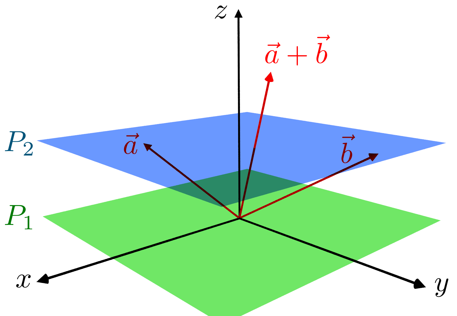 Intuitive example of an affine space.